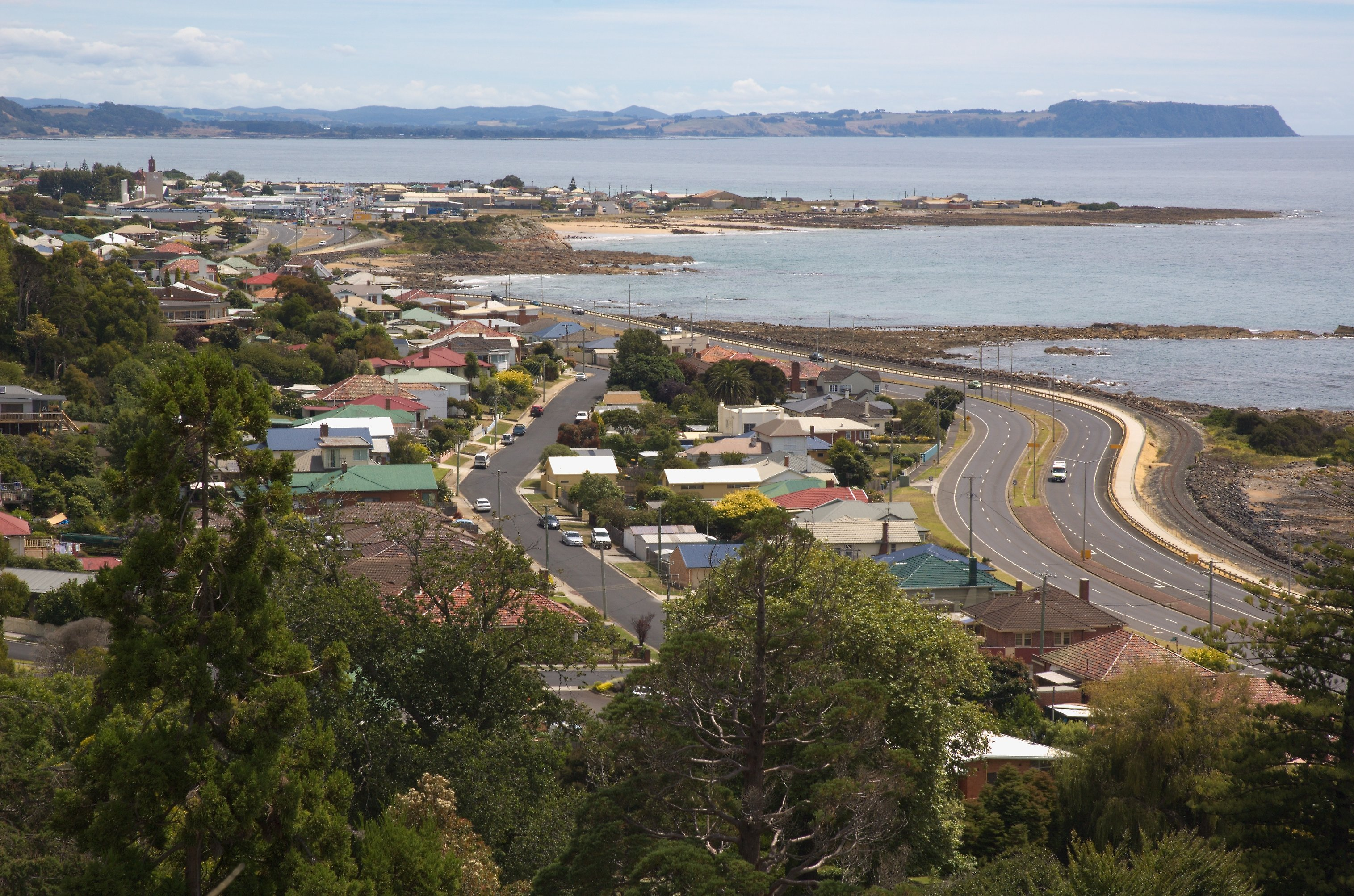 Parklands area of Burnie with Cooee behind it and Table Cape in the distance.